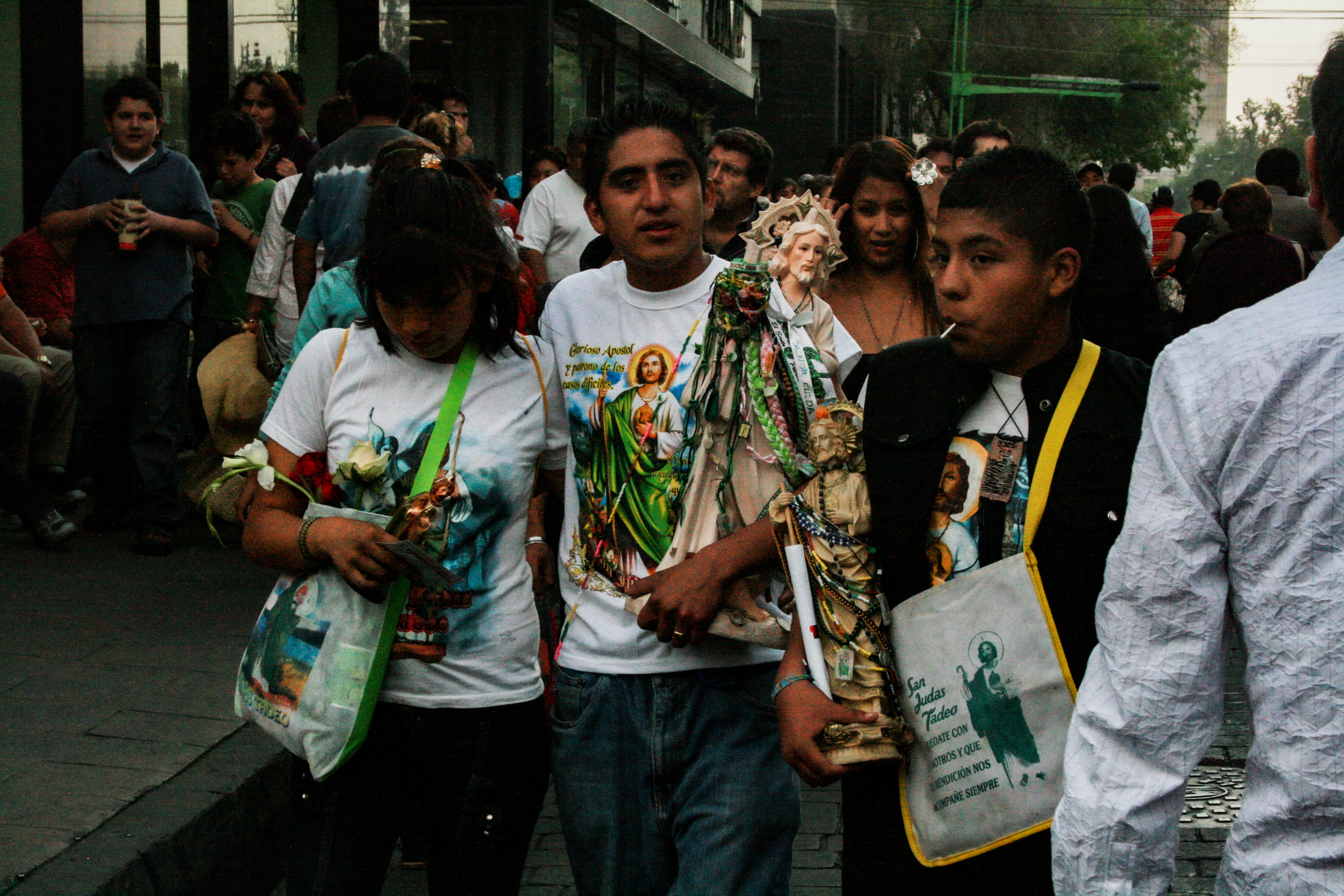 Devotees of Saint Jude Thaddeus (Sanjuderos) in Mexico City downtown.